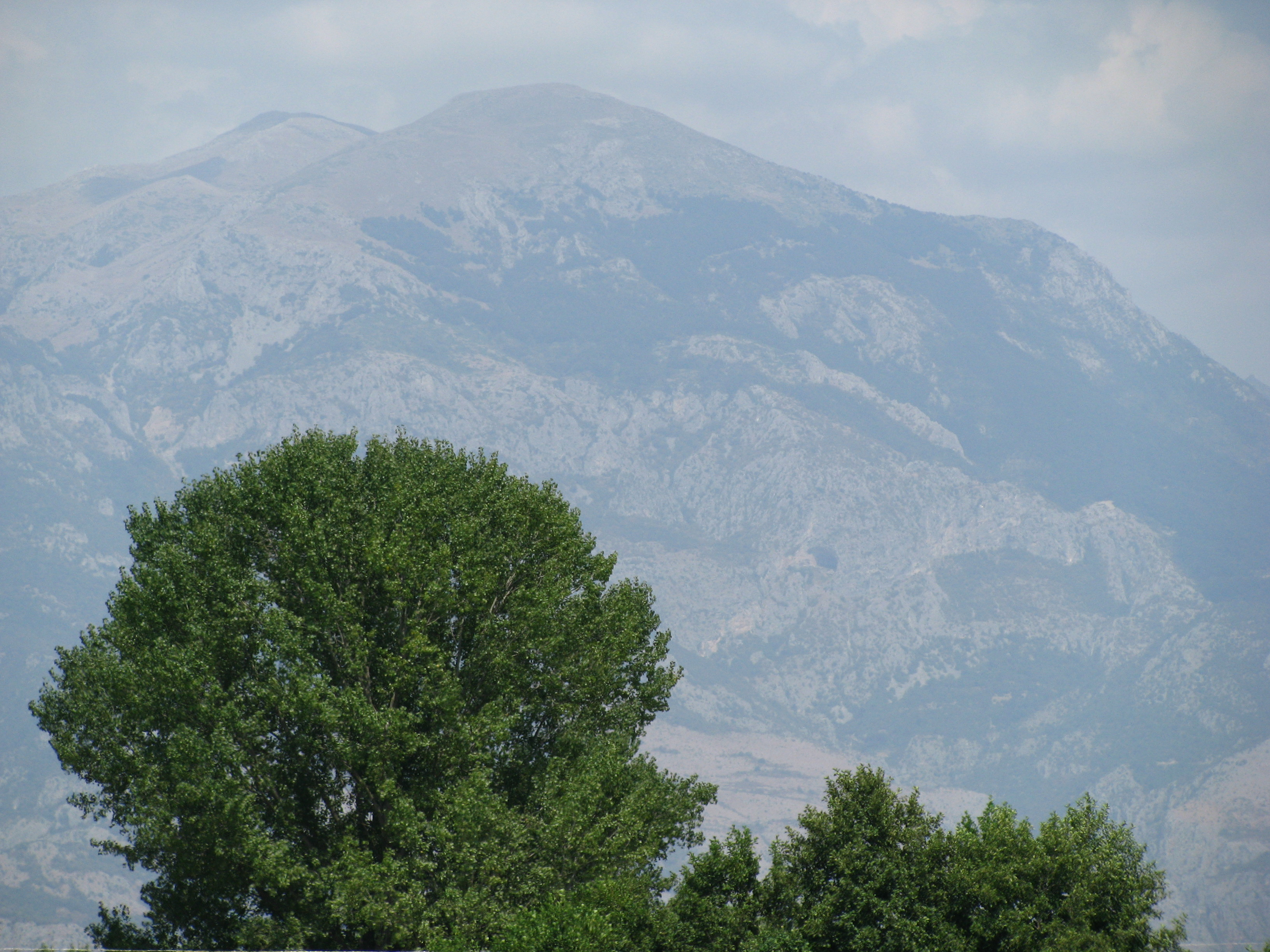 Mountain of Dzena/Kozhuh, Aegean Macedonia